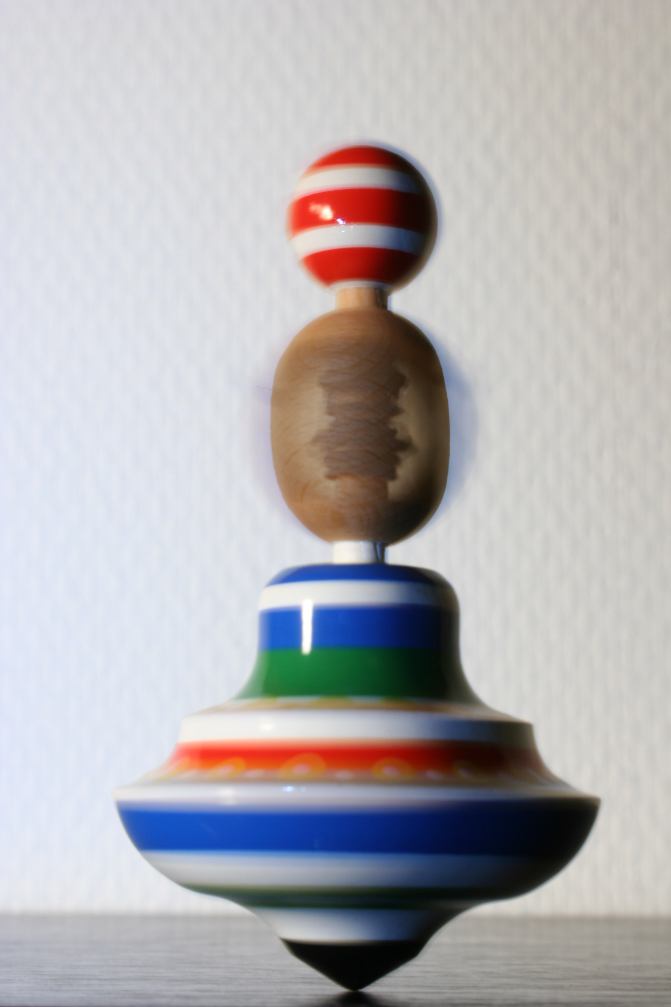 Spinning top, bought in Prague